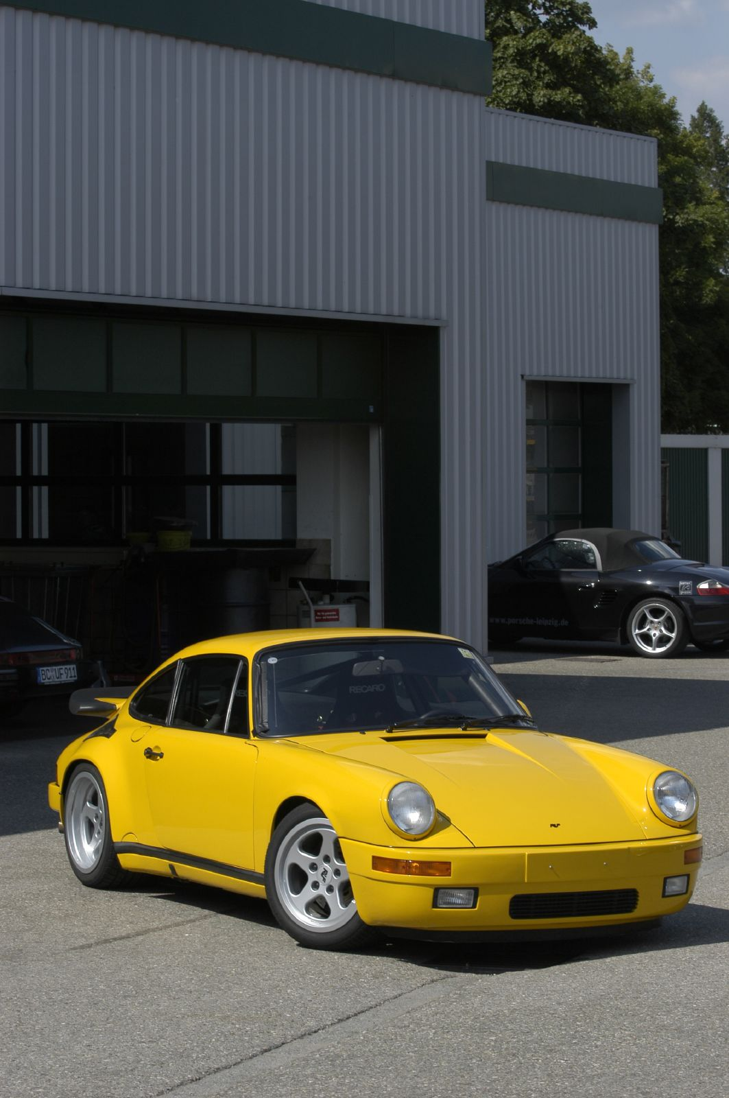 Ruf CTR YellowbirdRuf CTR Yellowbird